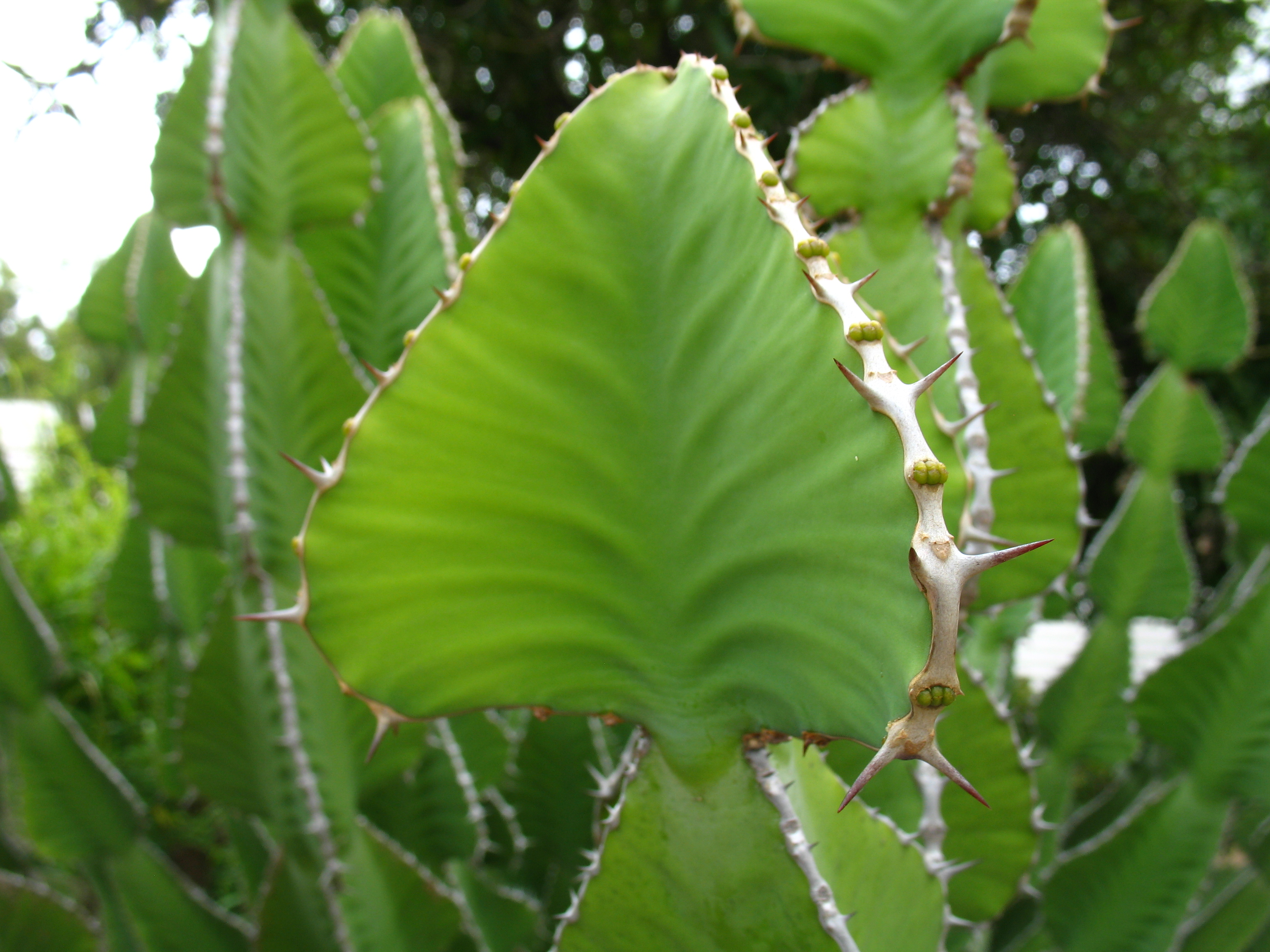 Transvaal candelabra tree in Gunhill, Harare, Zimbabwe